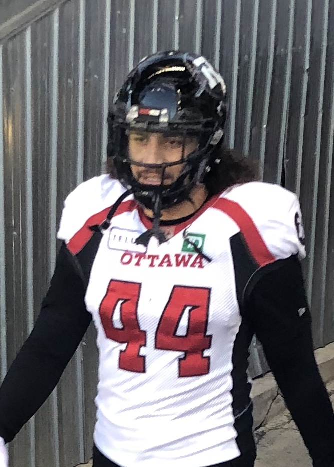 J. R. Tavai, defensive lineman for the Ottawa Redblacks.